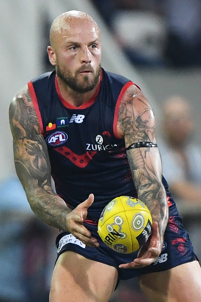 Nathan Jones of Melbourne during the 2019 AFL round 11 match between Melbourne and Adelaide at TIO Stadium on Saturday, 1 June 2019 in Darwin, Northern Territory.